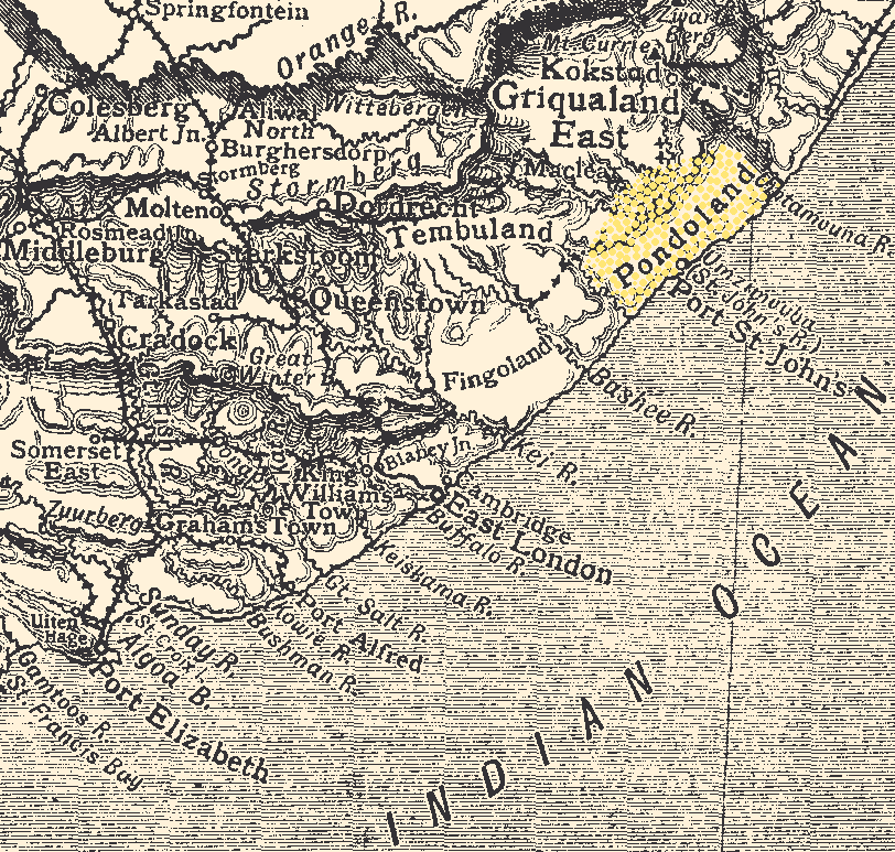 Old map of the Eastern Cape showing Pondoland surrounding areas.